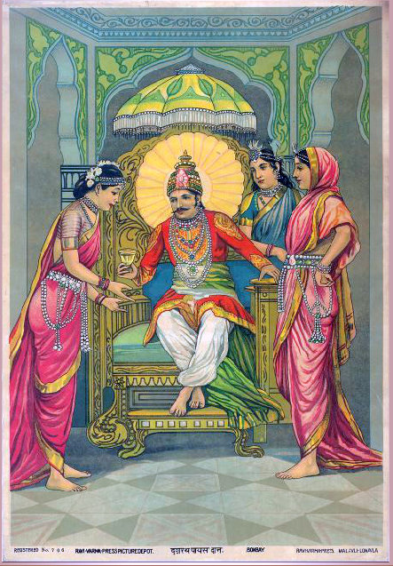 From Baroda Art Gallery